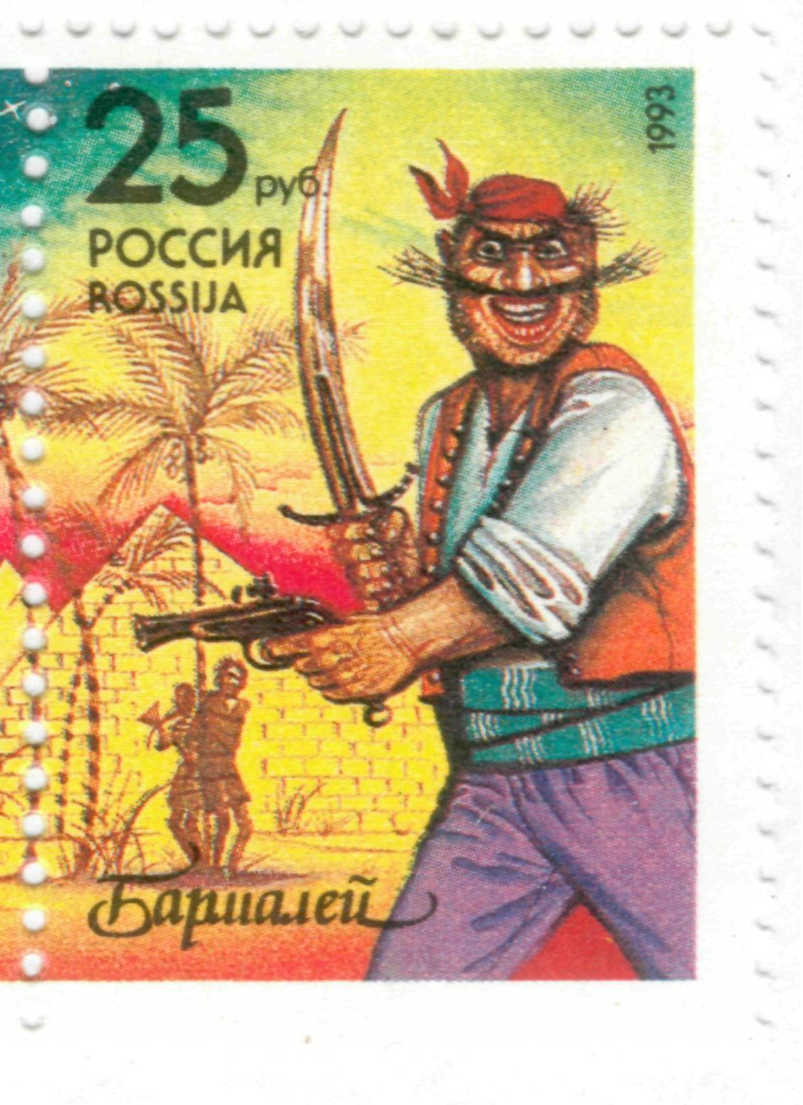 Postage stamp, bloodthirsty Barmalei (personage of one of tales written by Korney Chukovsky), Russia.